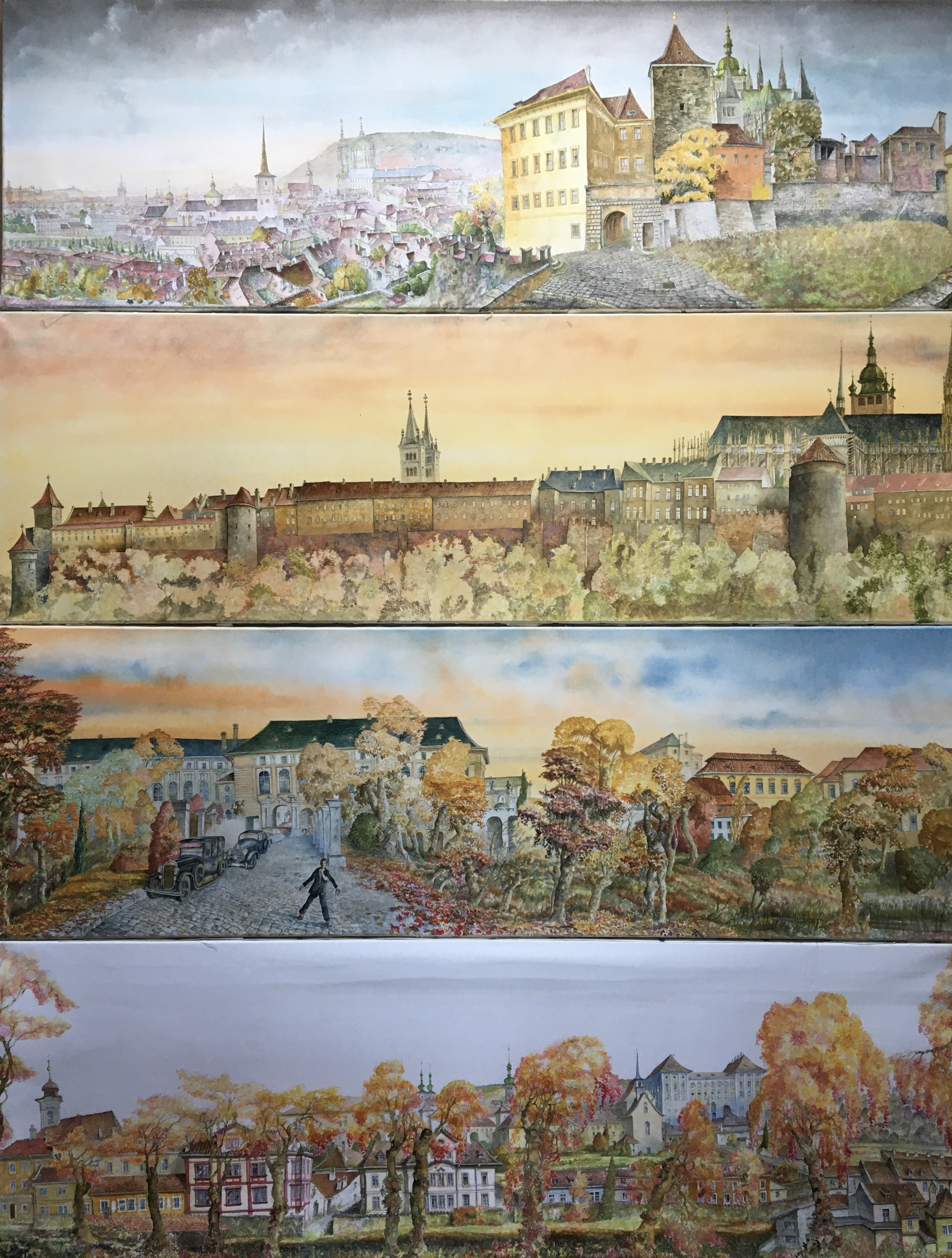 Prague: mobile perspectives